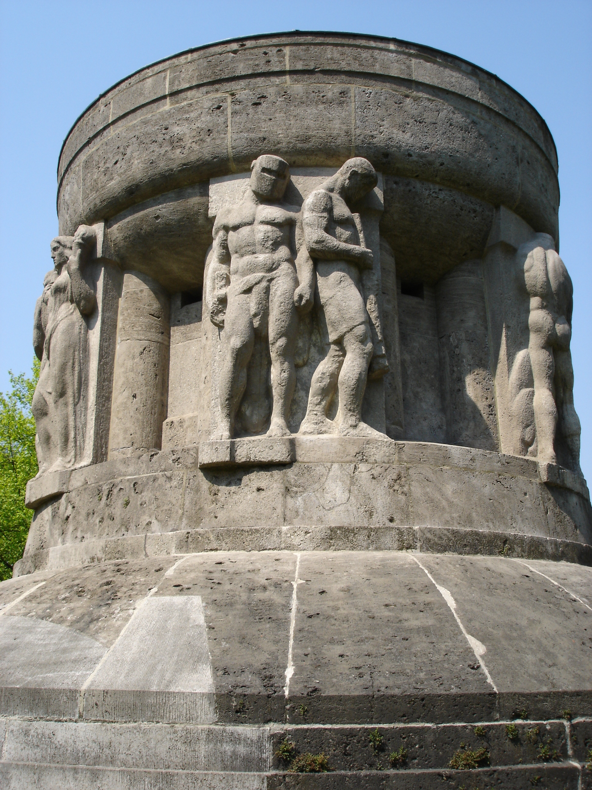 Monument to the three Wars of German Unification, located on the Promenade in Münster, North Rhine-Westphalia, Germany. Inscription on the monument: "1864 1870-1871 1866 In memory of the wars and victories and the reestablishment of the empire." Sculptor: Bernhard Frydag